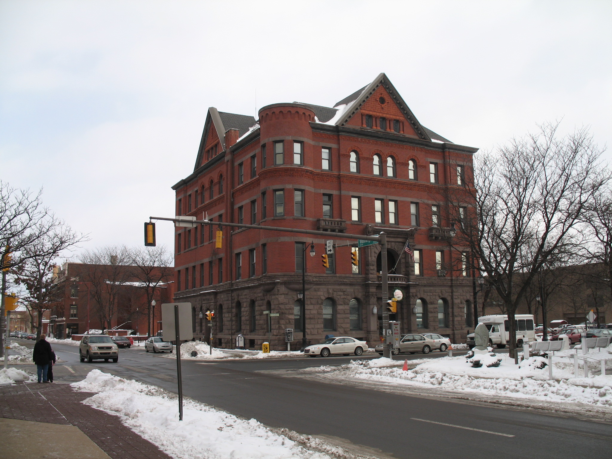 City Hall, Wilkes-Barre, Pennsylvania, United States.